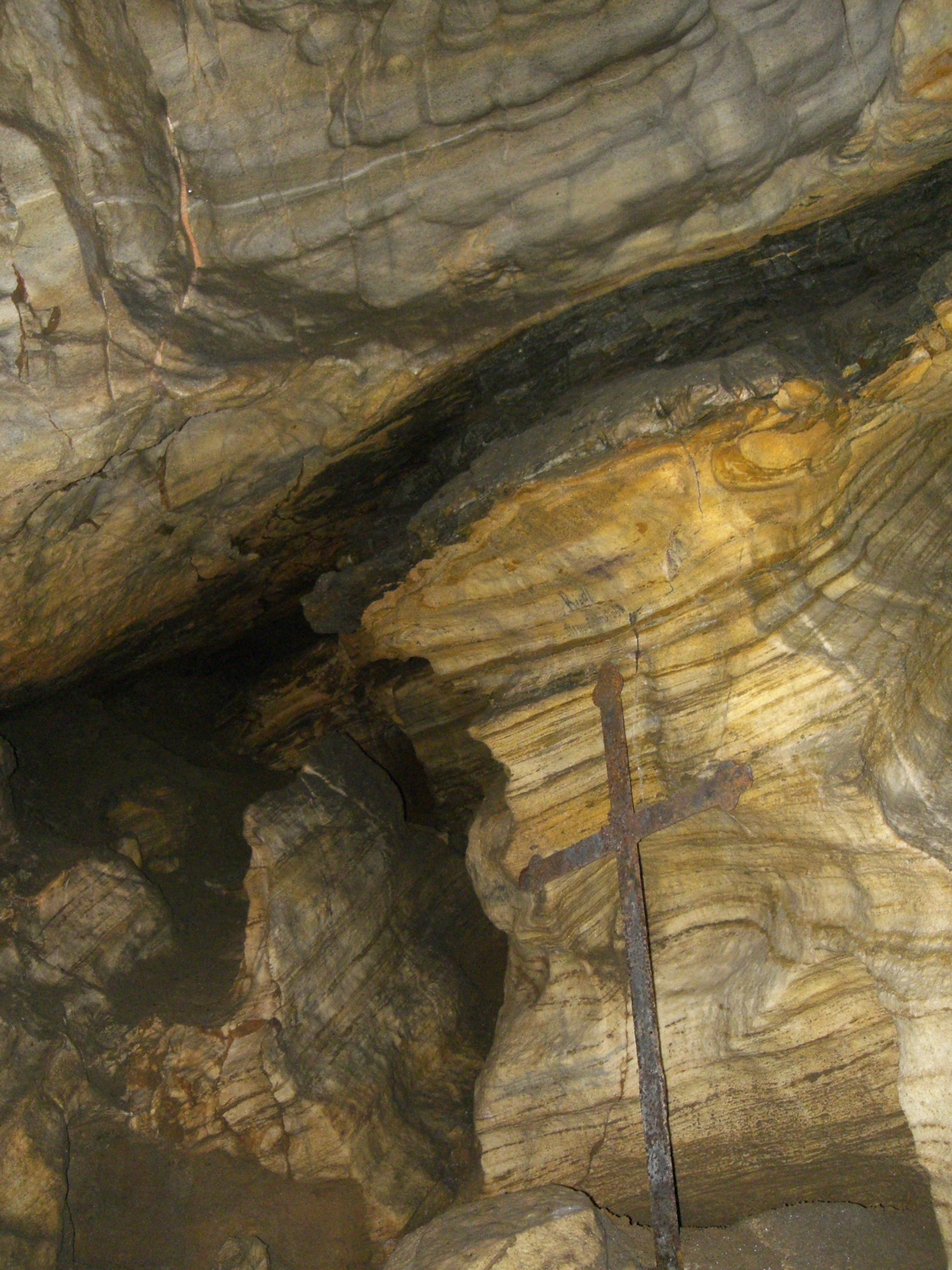 Chýnov's cave near Chýnov village. Cave's chapel with cross, Czech Republic 49°25′48.39″N 14°49′58.07″E / 49.4301083°N 14.8327972°E